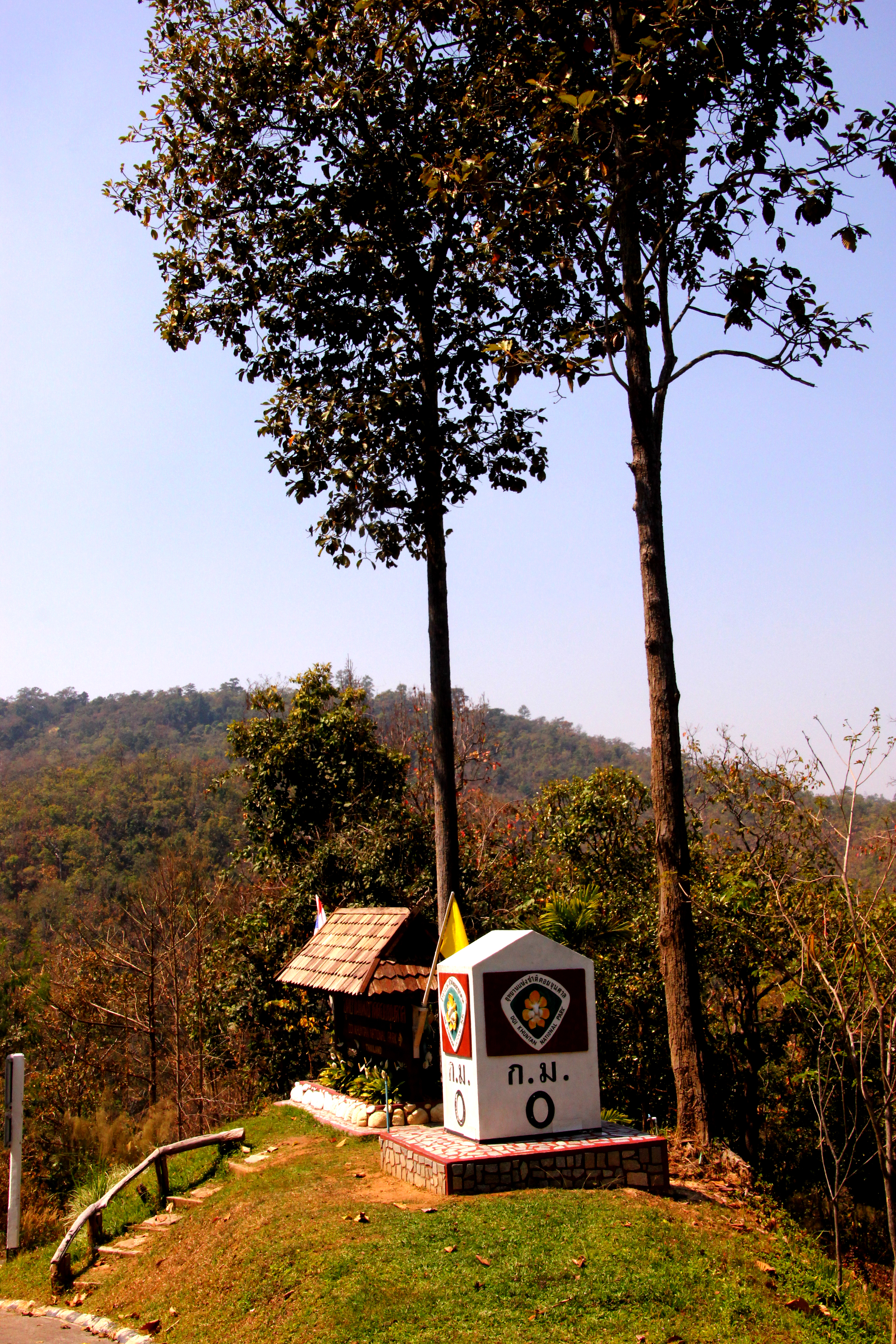 อุทยานแห่งชาติดอยขุนตาล